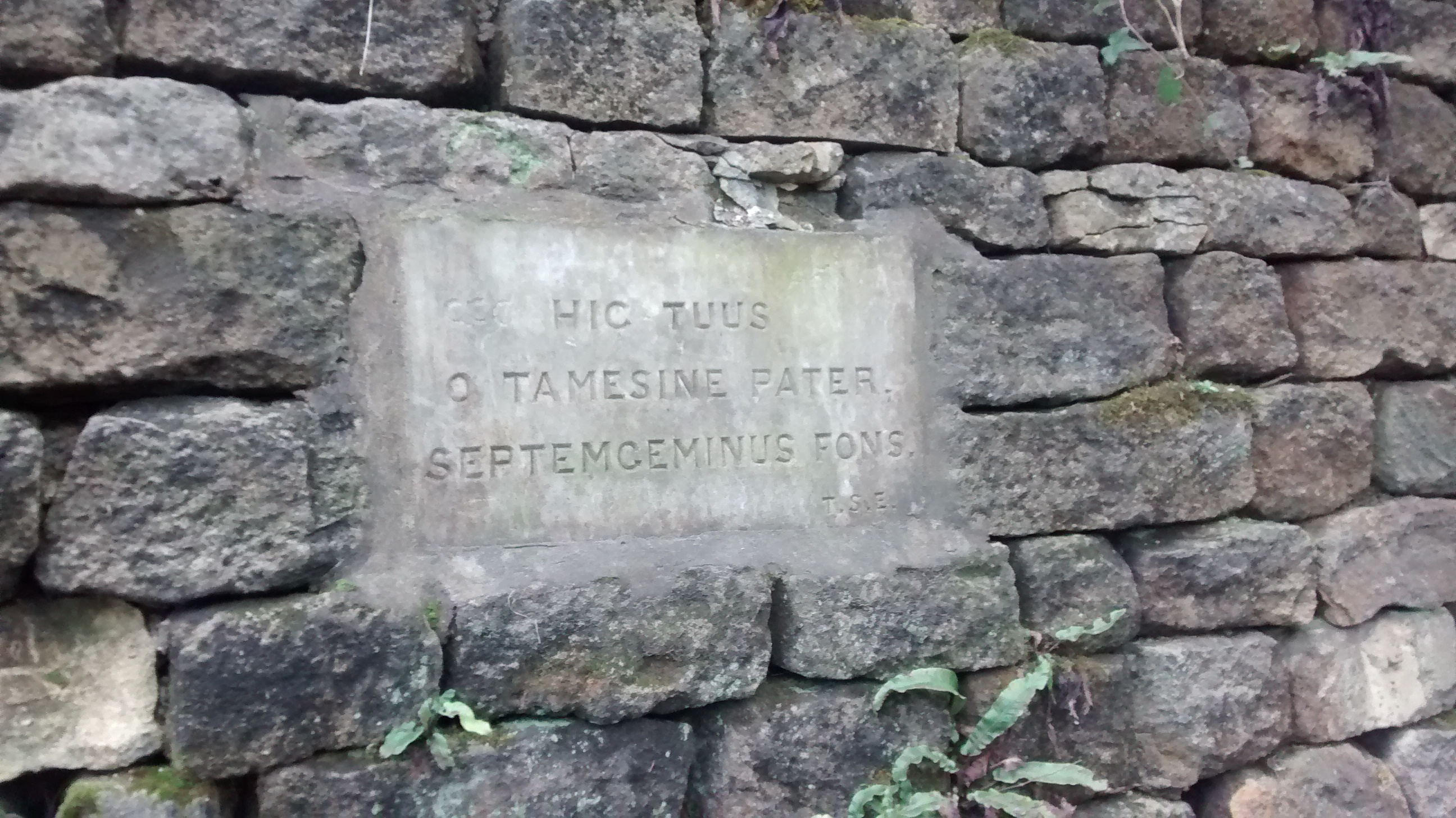 Plaque with Latin inscription at Seven Sources